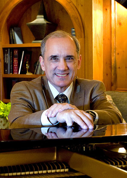 Photo of Dan Barker, by Brent Nicastro. © Brent Nicastro, Madison, Wisconsin. Any use of this photo must mention Brent's copyright notice and provide a link to his website.